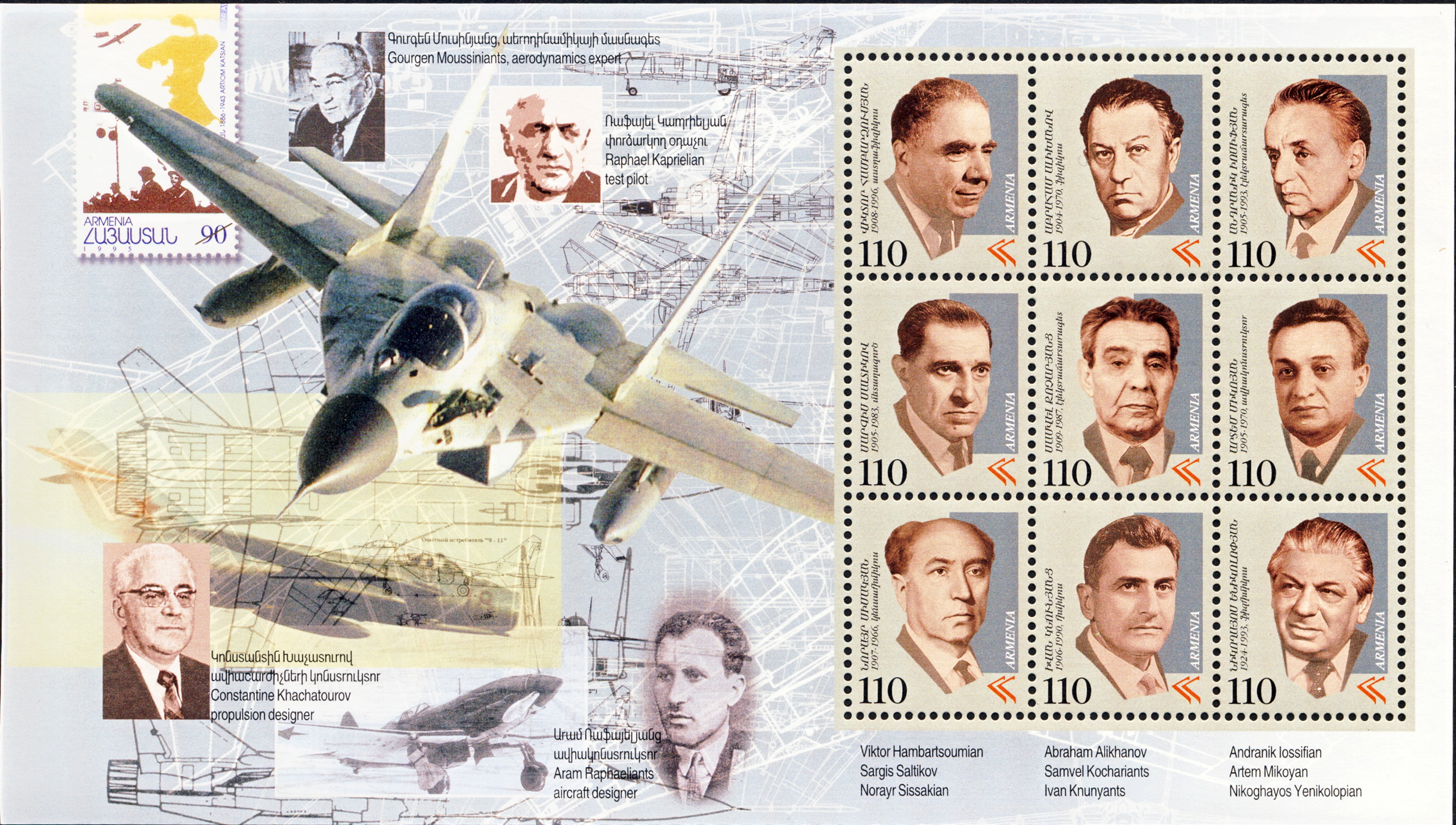 Stamp of Armenia